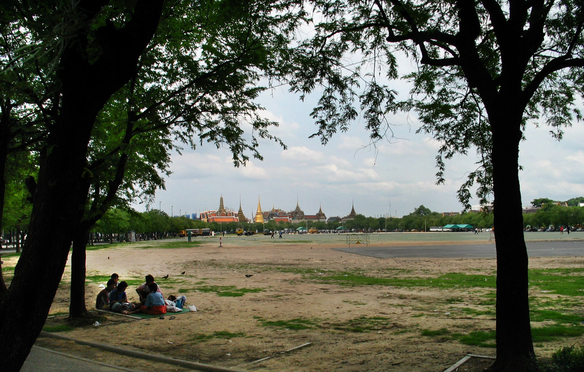 An evening at Sanam Luang ("Royal Field") with Wat Phra Kaeo and Grand Palace in the background, Bangkok, Thailand